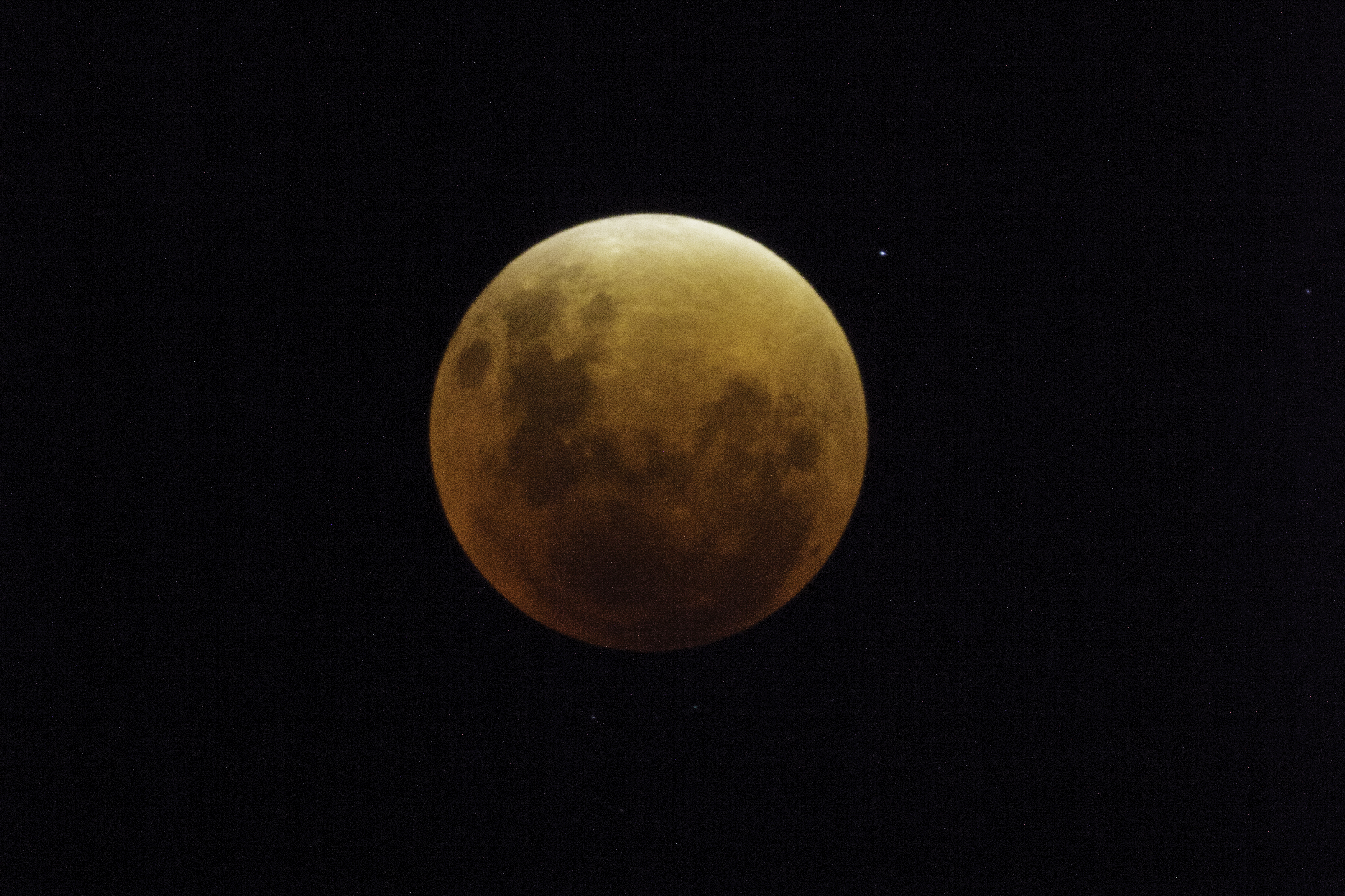 Camera: Canon EOS 5D Mark II Lens: 8 sec ISO: 800